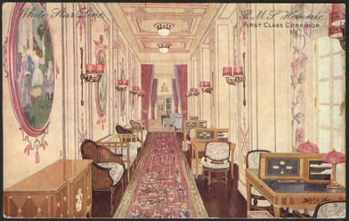 White Star Liner Homeric, 1st class corridor